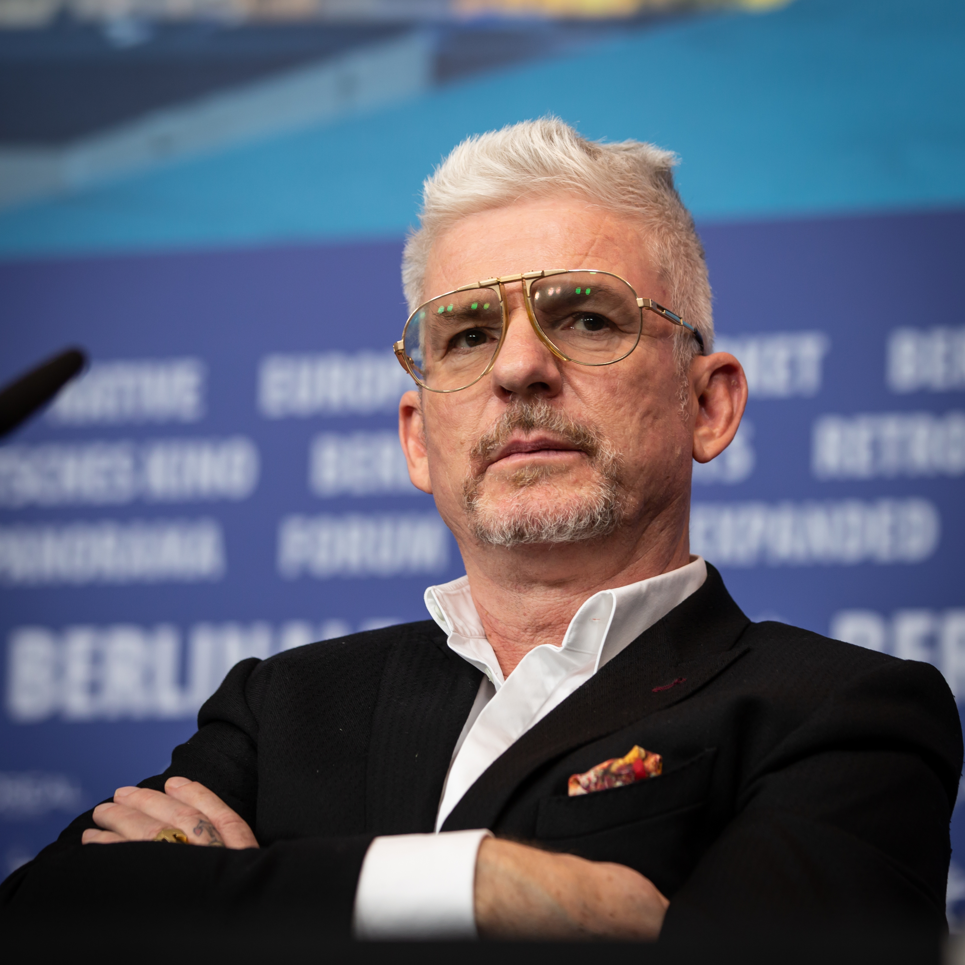 Author Heinz Strunk at the Berlinale 2019